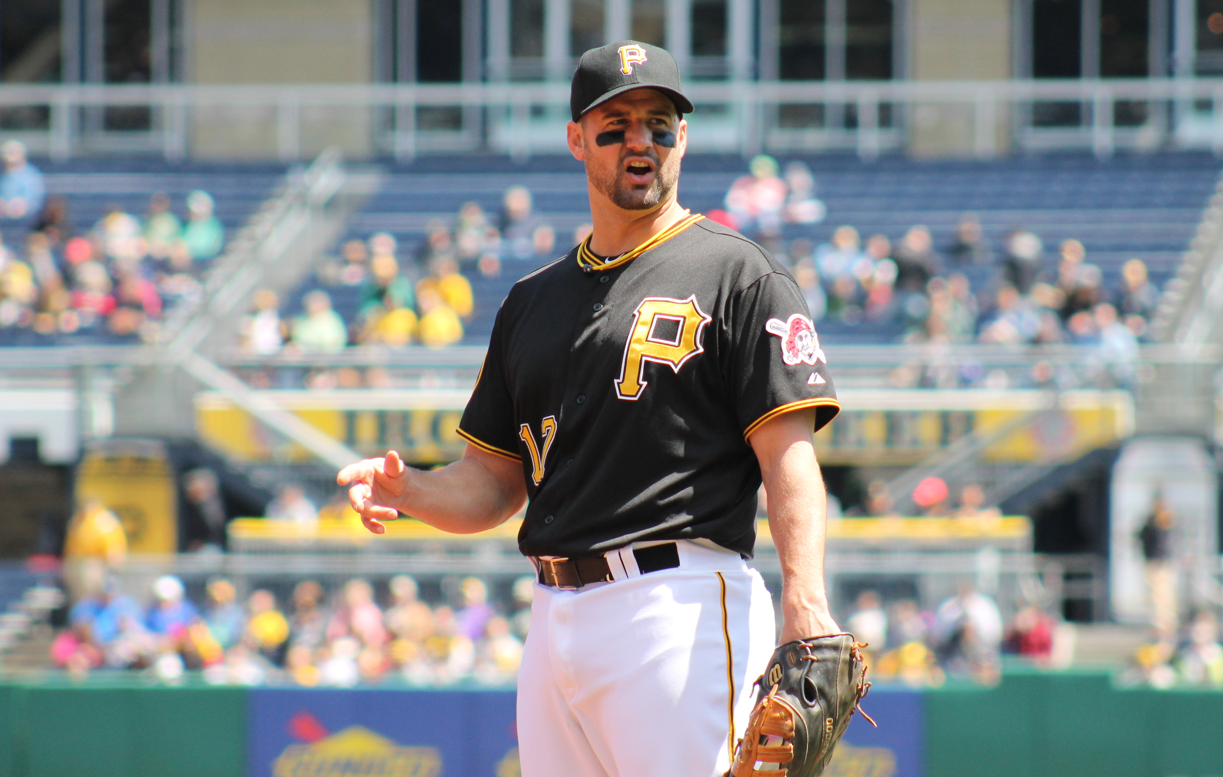 Gaby Sanchez at first base for the Pittsburgh Pirates.